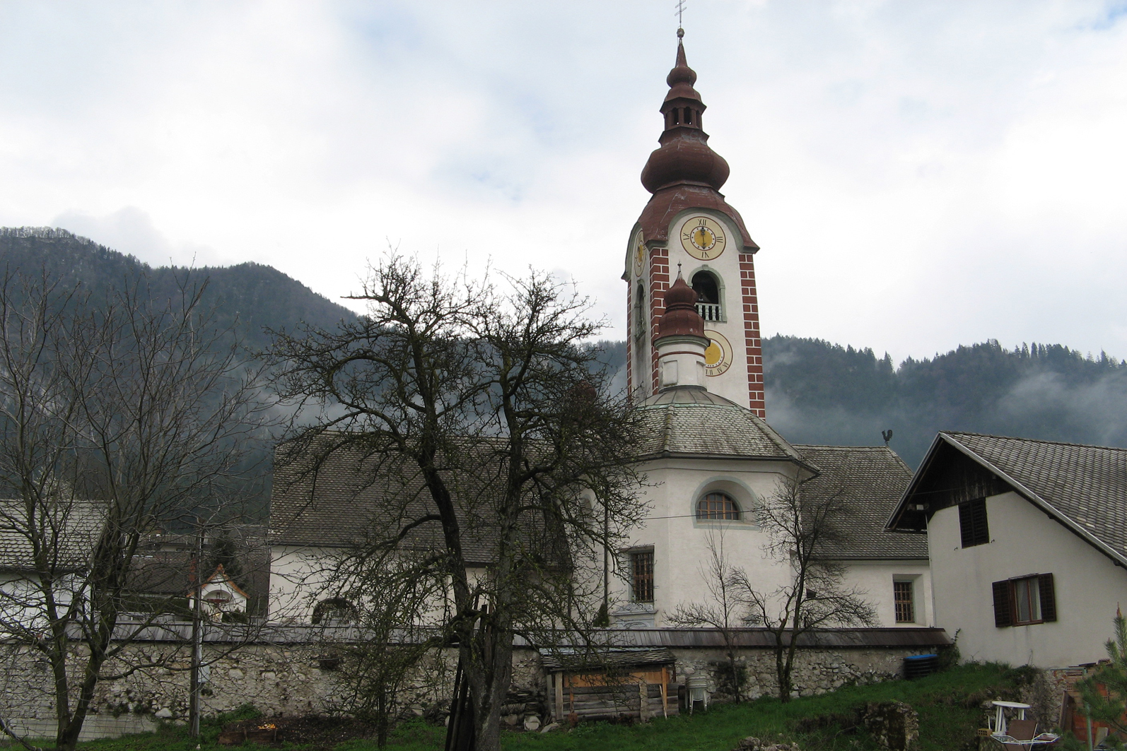 Saint Clement church, Rodine, Slovenia.